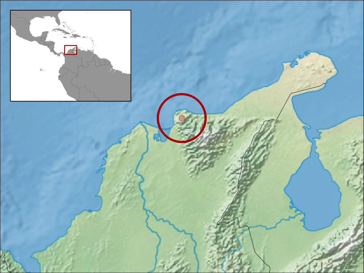 geographic distribution of Santamartamys rufodorsalis